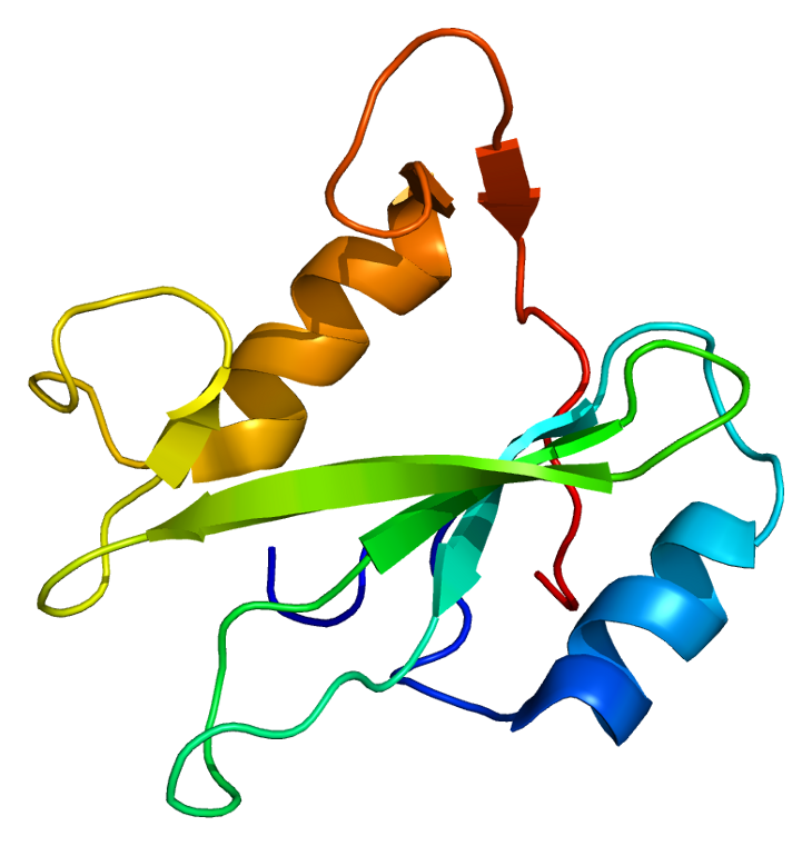 Structure of the PIK3R3 protein. Based on PyMOL rendering of PDB 2pna.